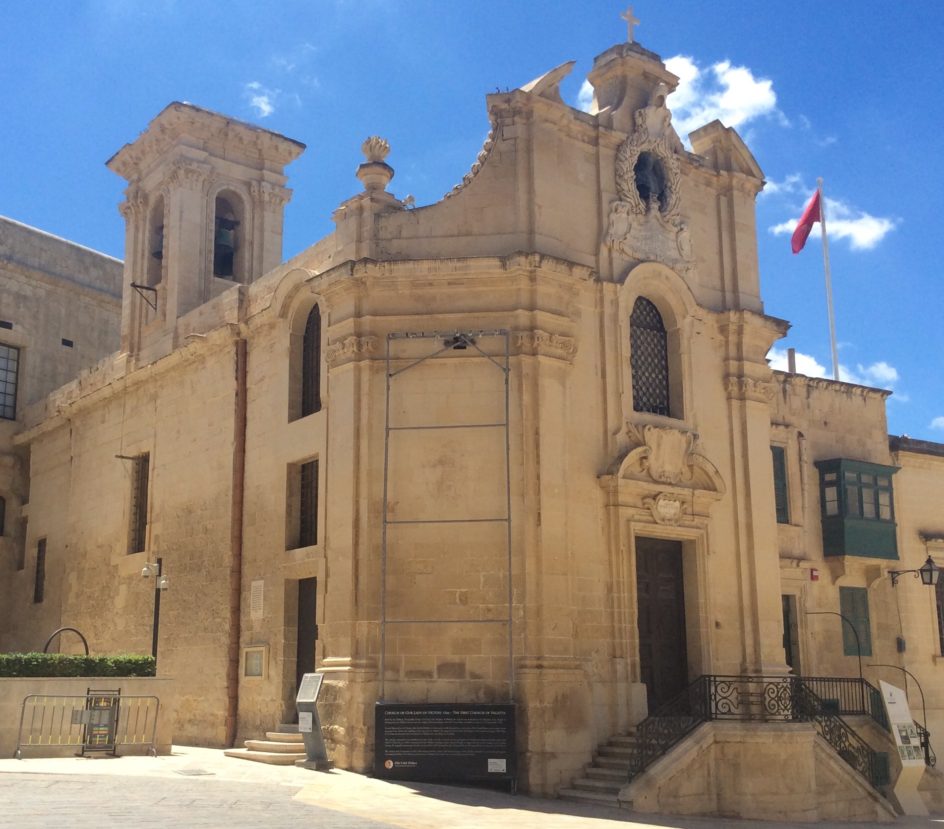 Victoria Church, Valletta